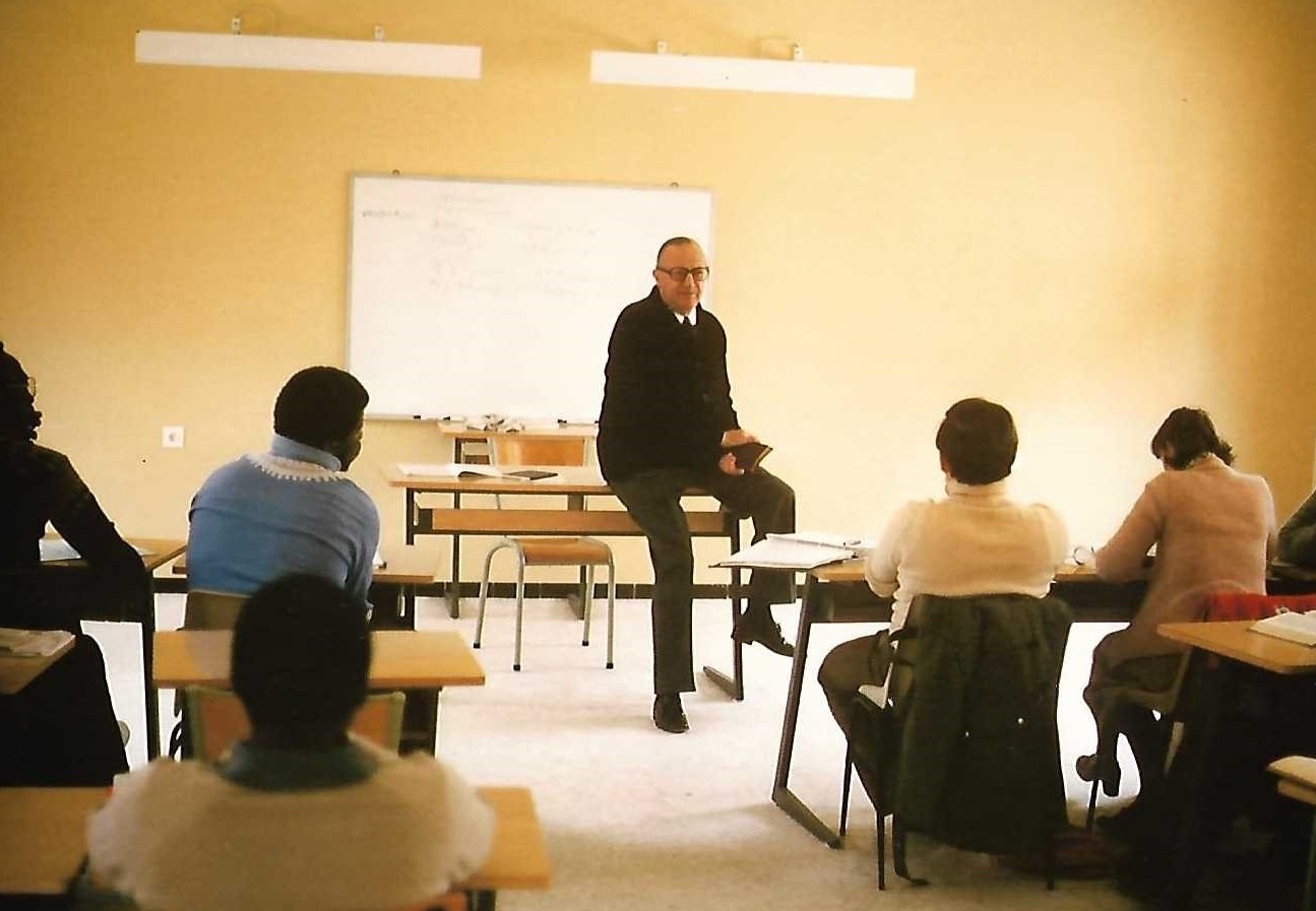 pc